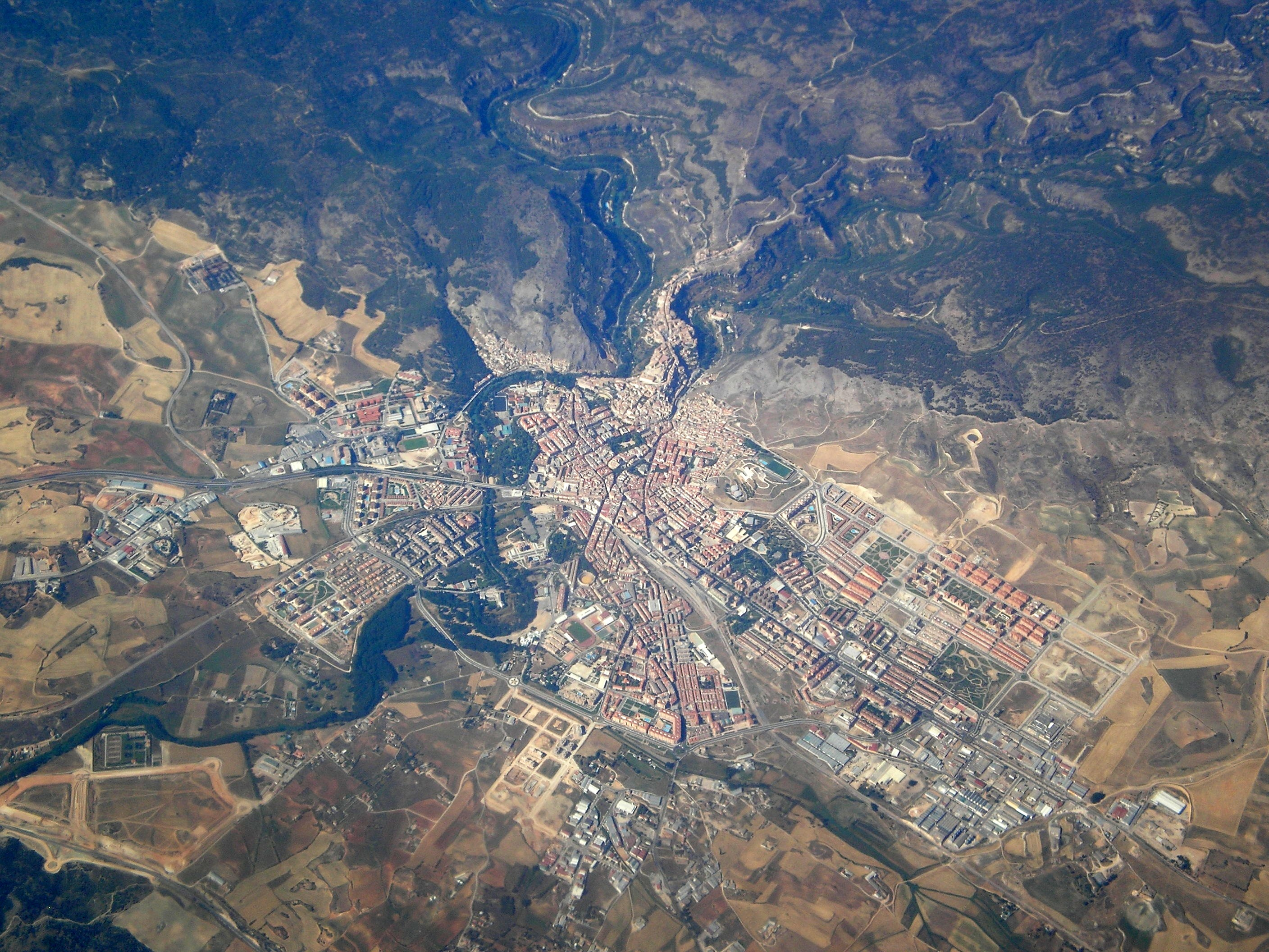 The city of Cuenca, Castilla-La Mancha, Spain, seen from a plane.